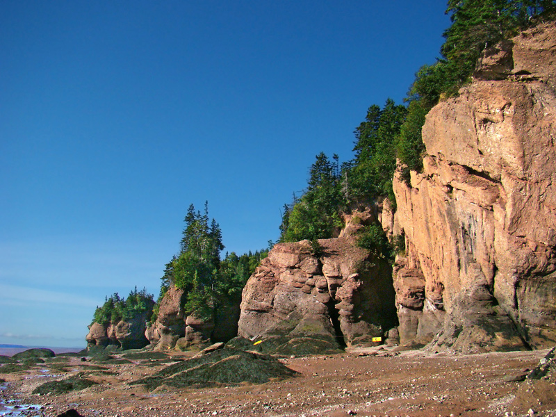 Hopewell Rocks, Bay of Fundy, New Brunswick, Canada. The Flowerpot Rocks.